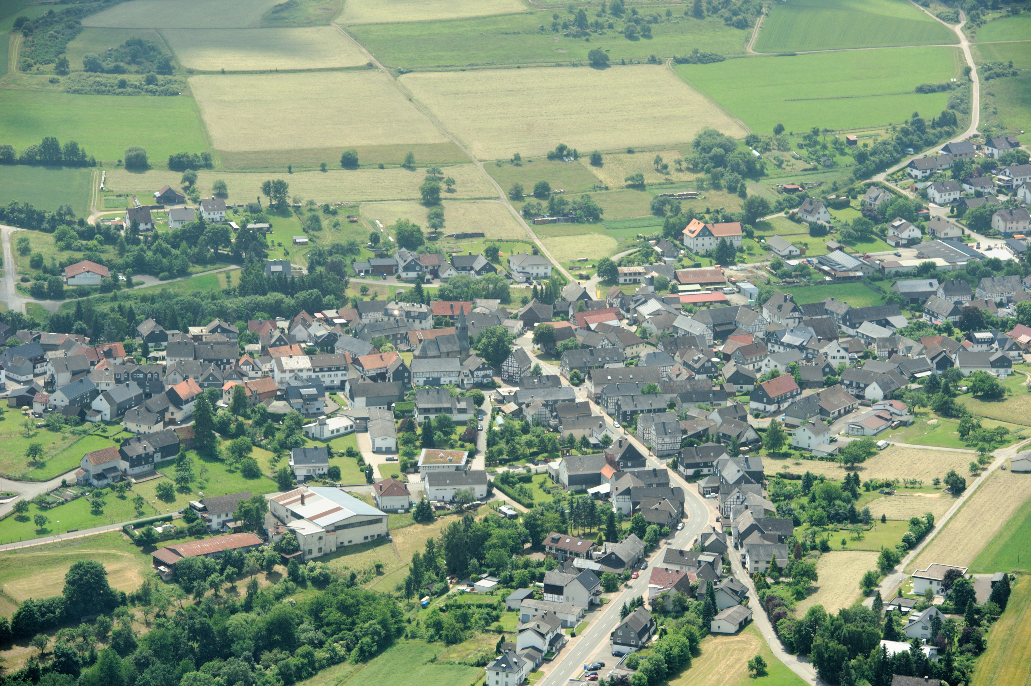 Fotoflug Sauerland-Ost: Bromskirchen; Blickrichtung Süden. The making of this document was supported by the Community-Budget of Wikimedia Germany.